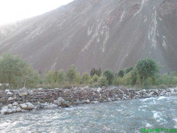 Beautifull and natural seen of Chilas, district Diamer Northern Area Pakistan.